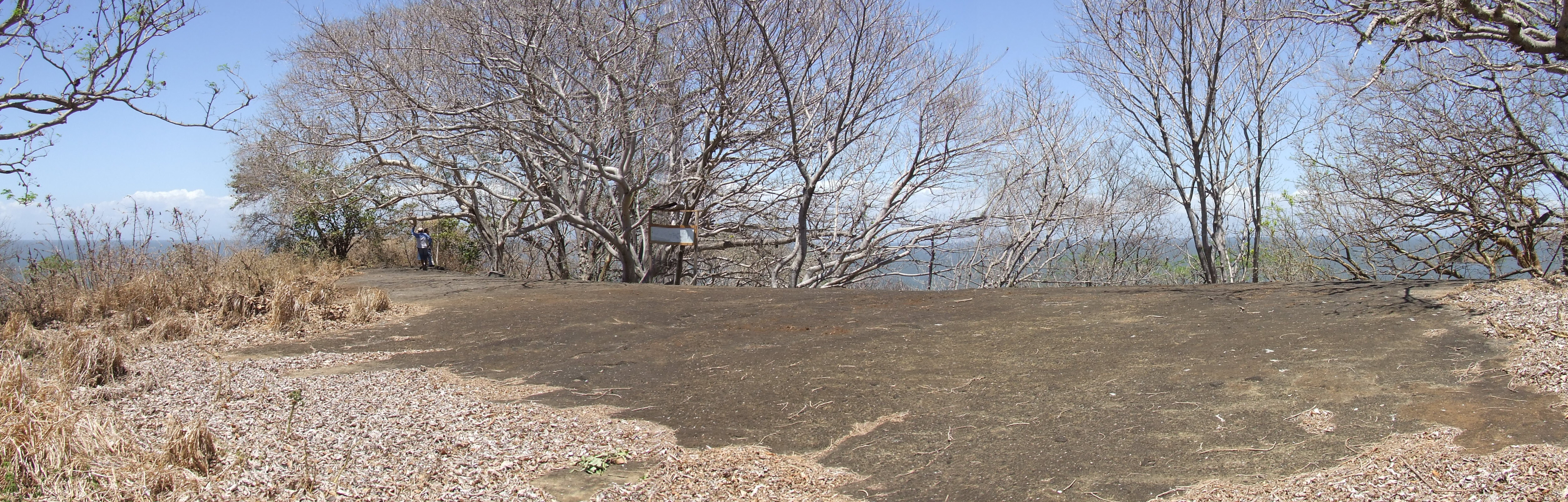 Plazoleta Isla El Muerto, vista panoramica, Nicaragua